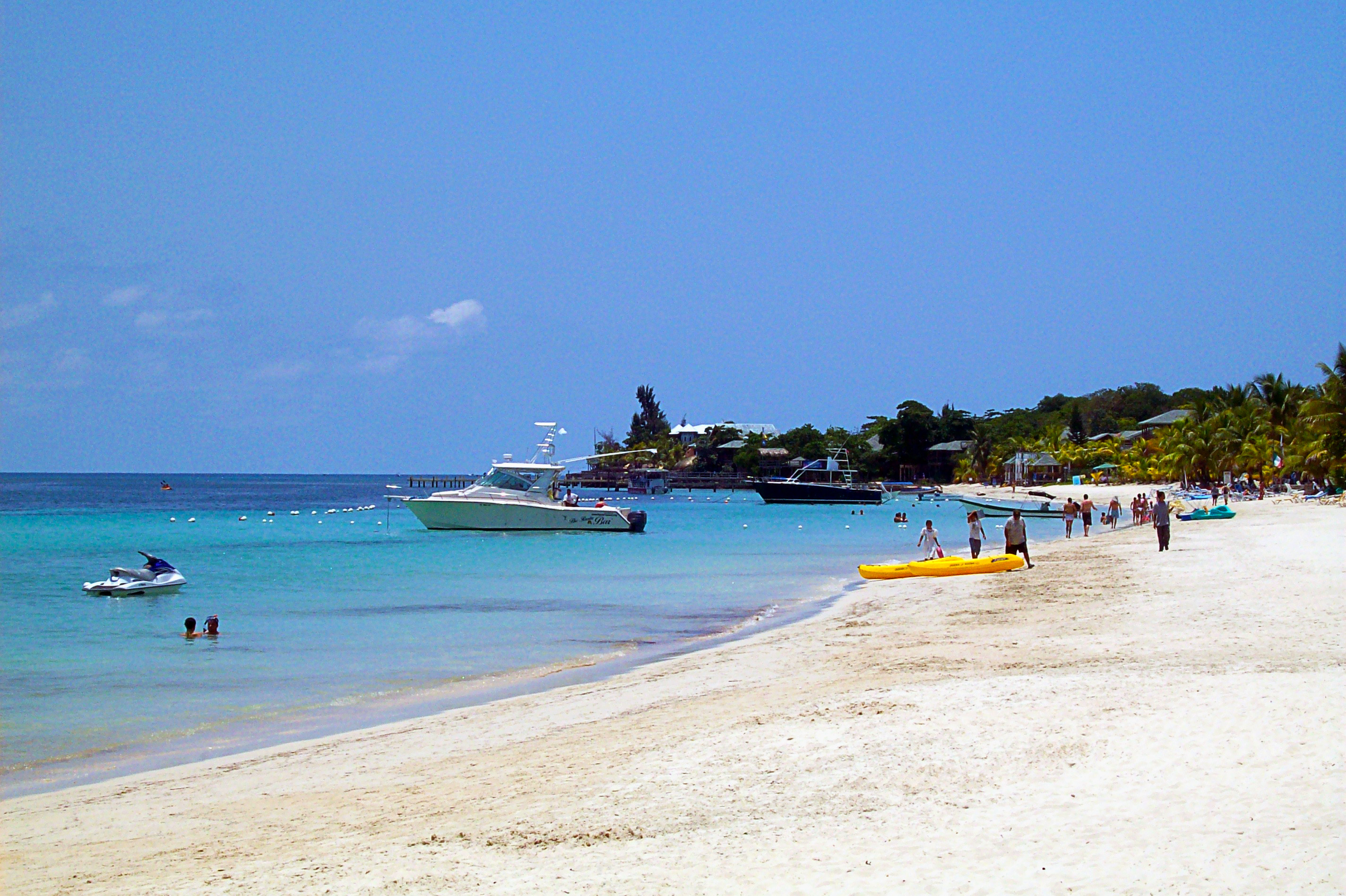 West Bay Beach, Roatan, Honduras.